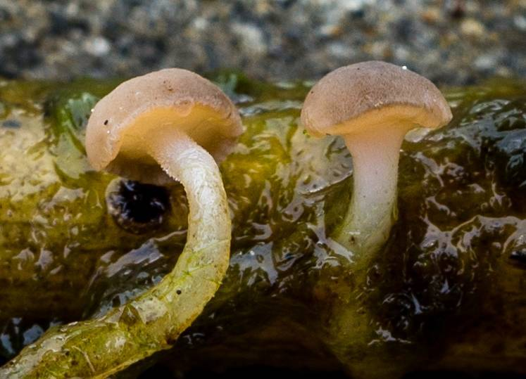 Fruit bodies of the ascomycete fungus Cudoniella clavus (Alb. & Schwein.) Dennis; specimens photographed in Big Mosquito Lake, Gifford Pinchot National Forest, Washington, USA.